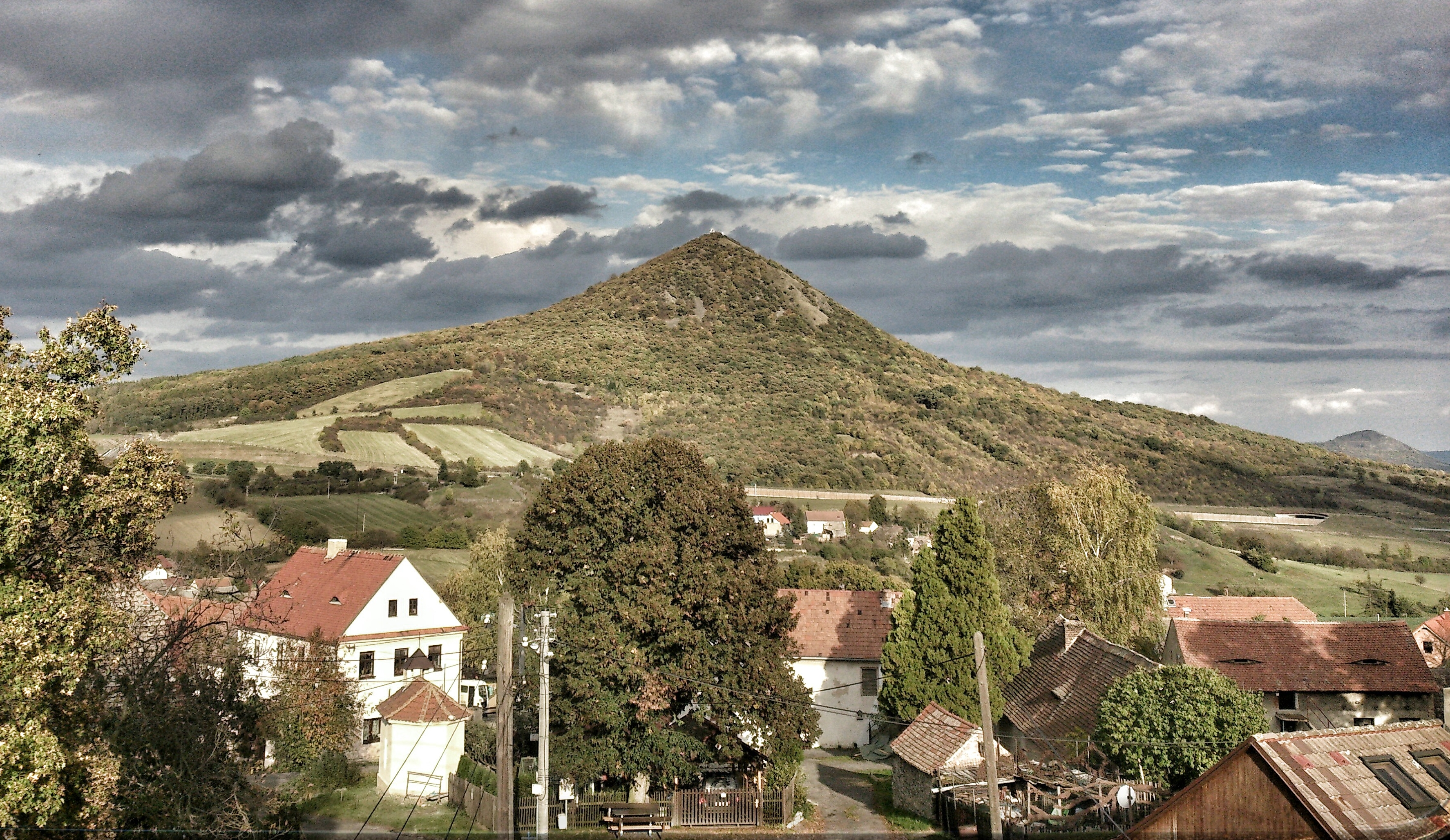 Rezny Ujezd village square